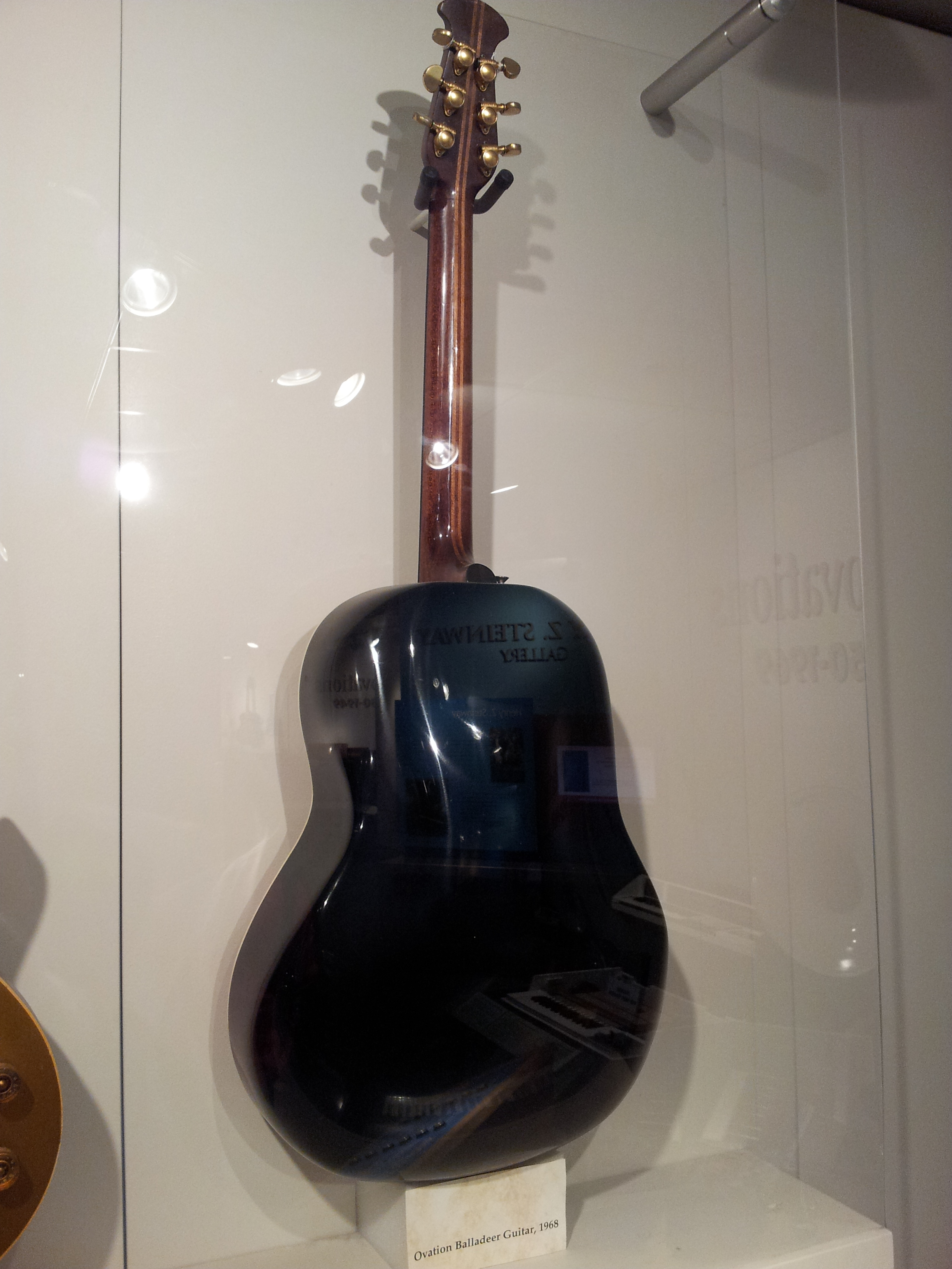 Ovation Balladeer Guitar (1968) fiberglass round-back, Museum of Making Music "Hard to see in this photo, but it's convex."— doryfour